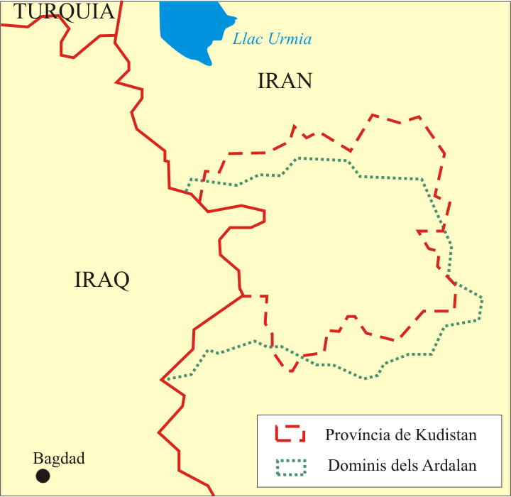 Ardalan state